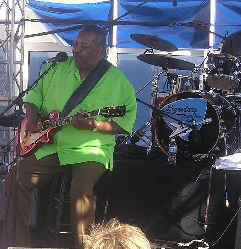 Magic Slim during the Legendary Rhythm & Blues Cruise 2010